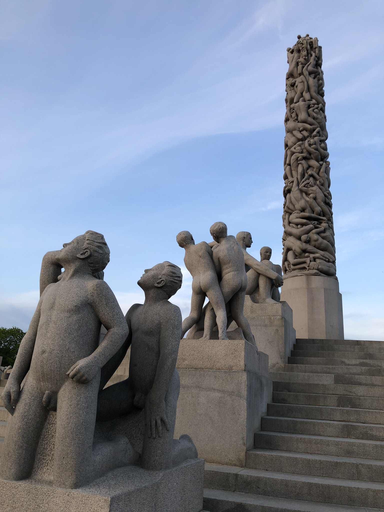 Statues in Frogner Park at the monolite. The column in the background is the monolite